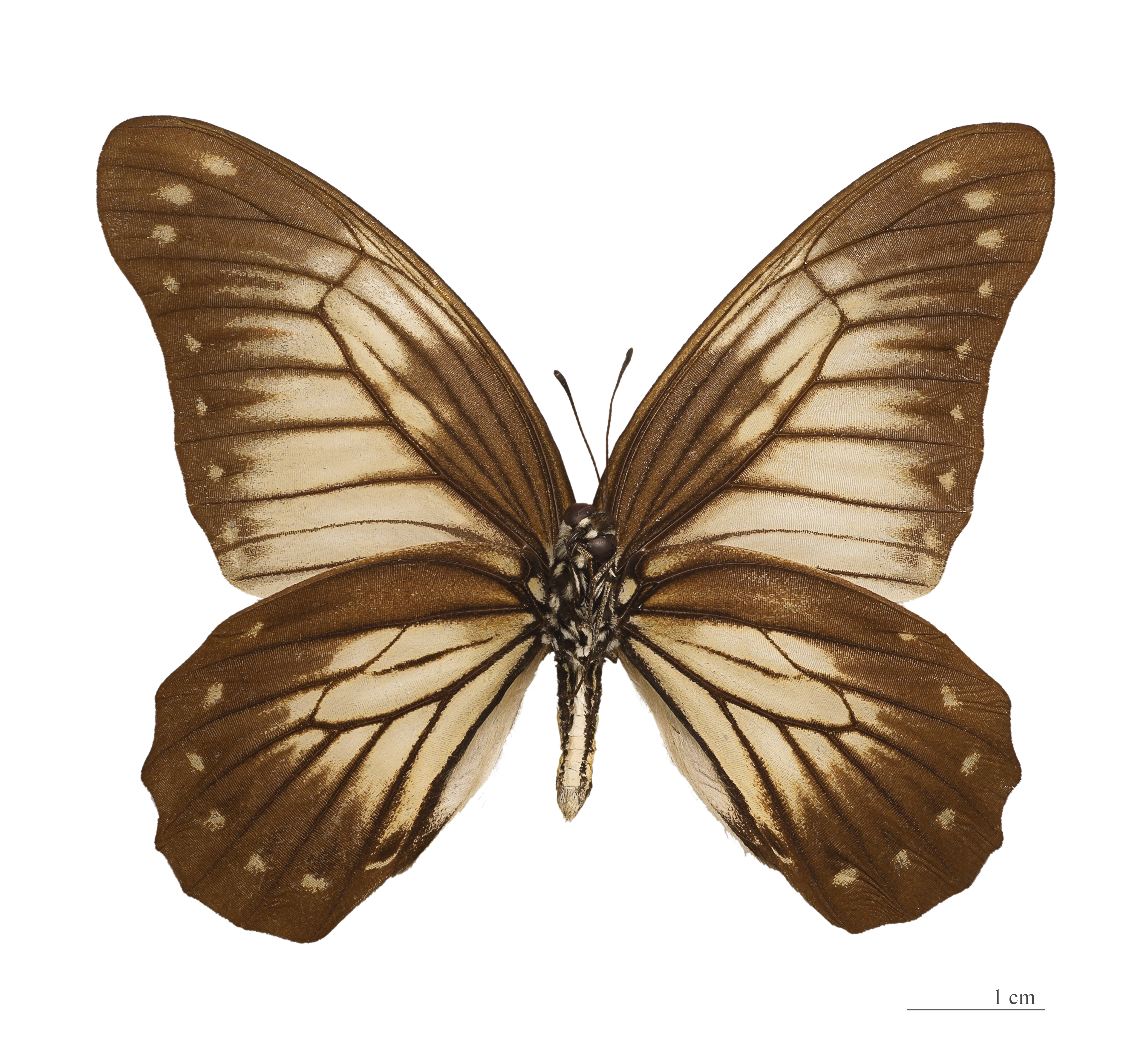 ♂ - △ Ventral side Locality: Boukoko, South Sulawesi, Indonesia.